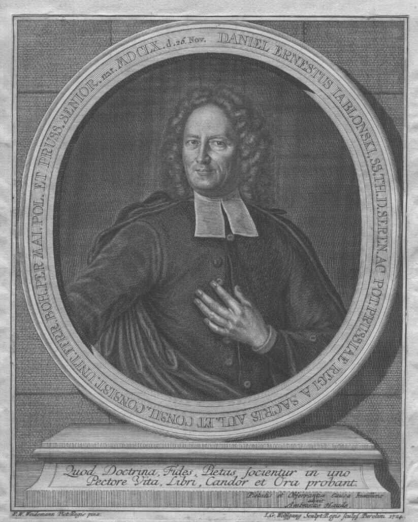 Jablonski, Daniel Ernst (1660-1741) German theologian and Hebrew scholar